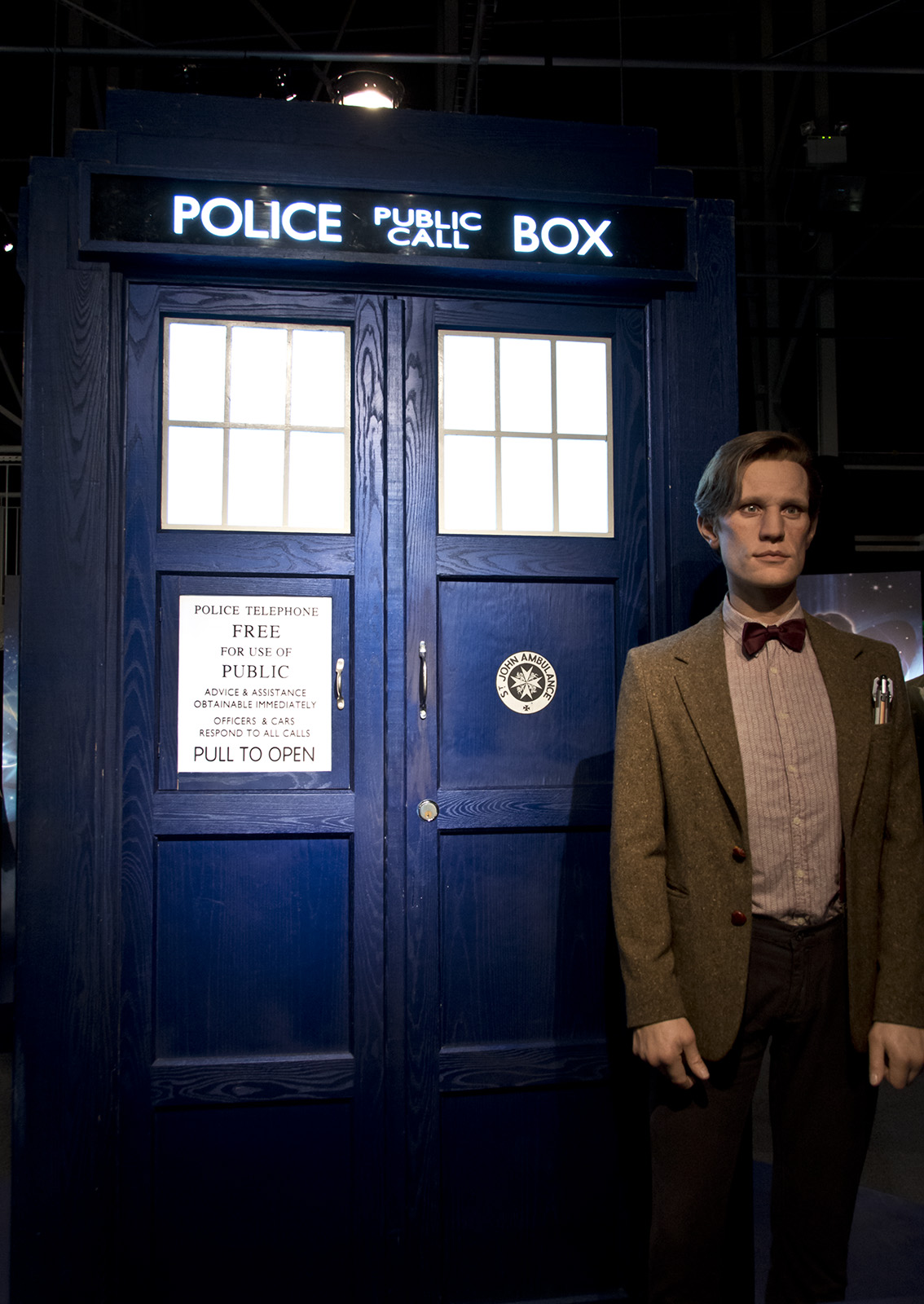 Doctor Who Experience